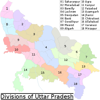 DONE